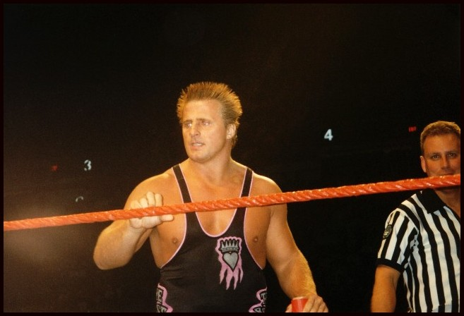 Professional wrestler Owen Hart at a WWF show on September 15, 1997 in Landover, MD. Photo taken by ae!